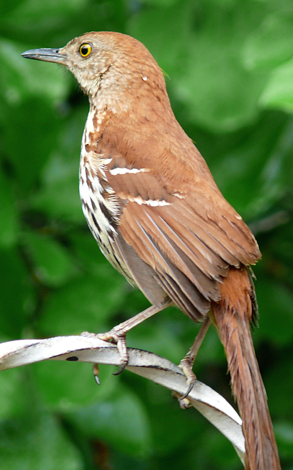 A Brown Thrasher (Toxostoma rufum) perched on a metal hanger.Photo taken with a Panasonic Lumix DMC-FZ50 in Johnston County, North Carolina, USA.